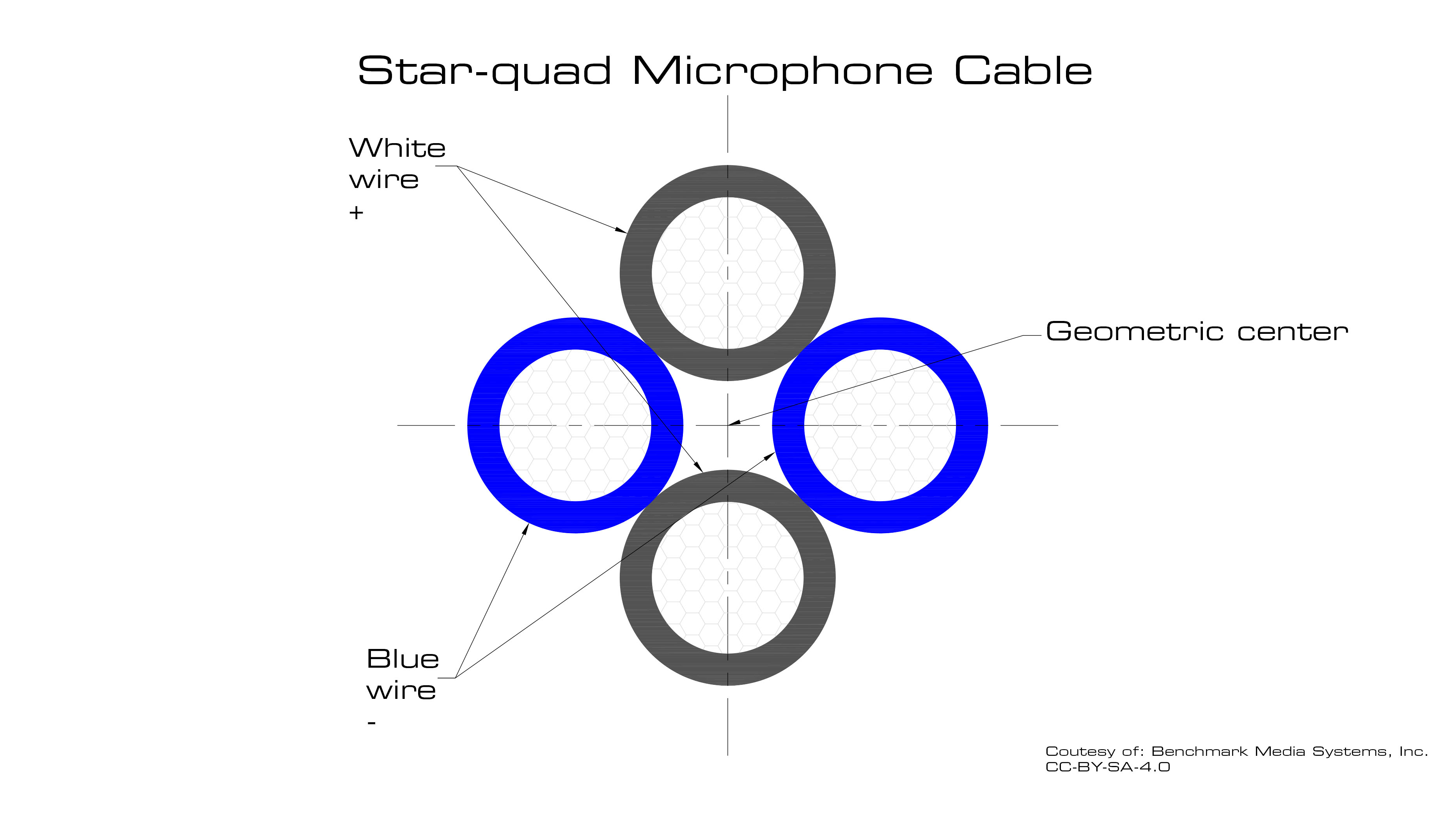 Simplified Cross Section of Star-Quad Microphone Cable